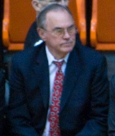 Dick Davey, Stanford associate head coach, during Stanford's game at Oregon State in Feb. 2010.